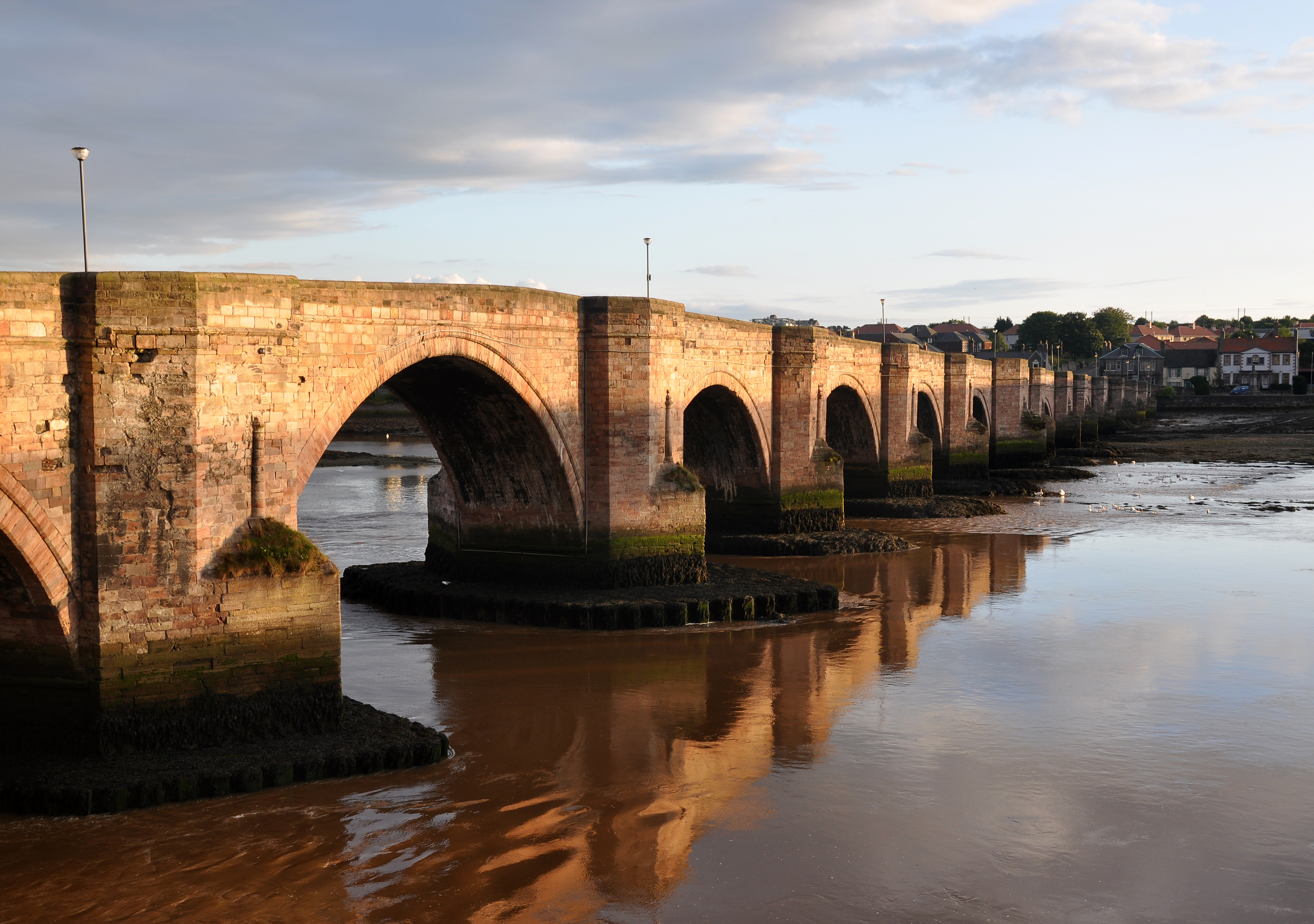 Berwick Bridge, linking Berwick-upon-Tweed to Spittal, crossing the River Tweed in Northumberland